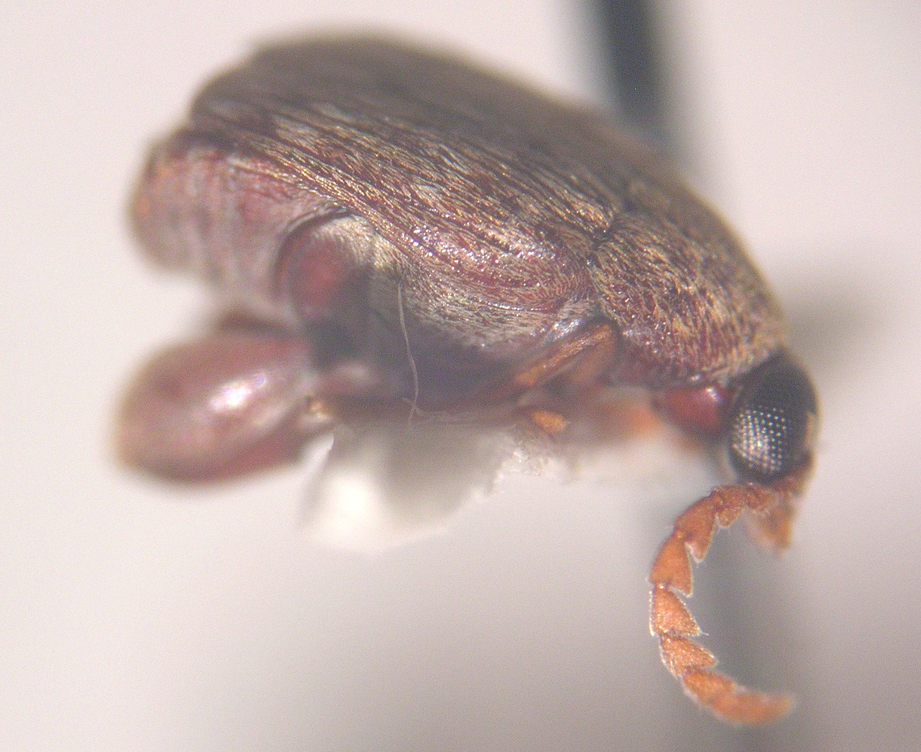 mounted Acanthoscelides obtectus from Hawai'i, lateral view.